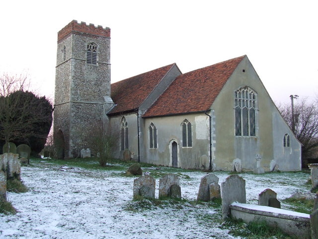 St Mary Belstead The church of St Mary Belstead, Suffolk for more info